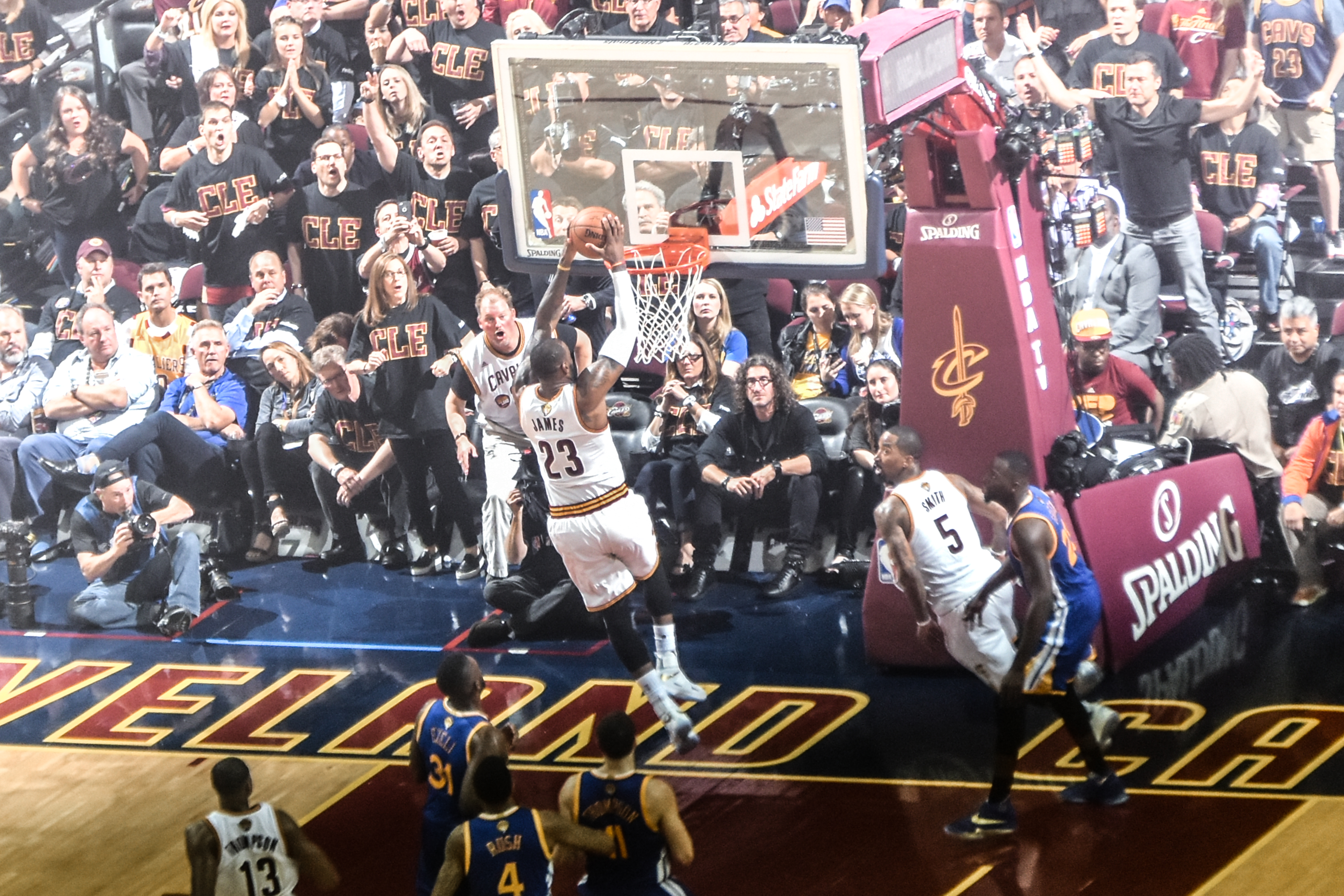 Lebron dunking